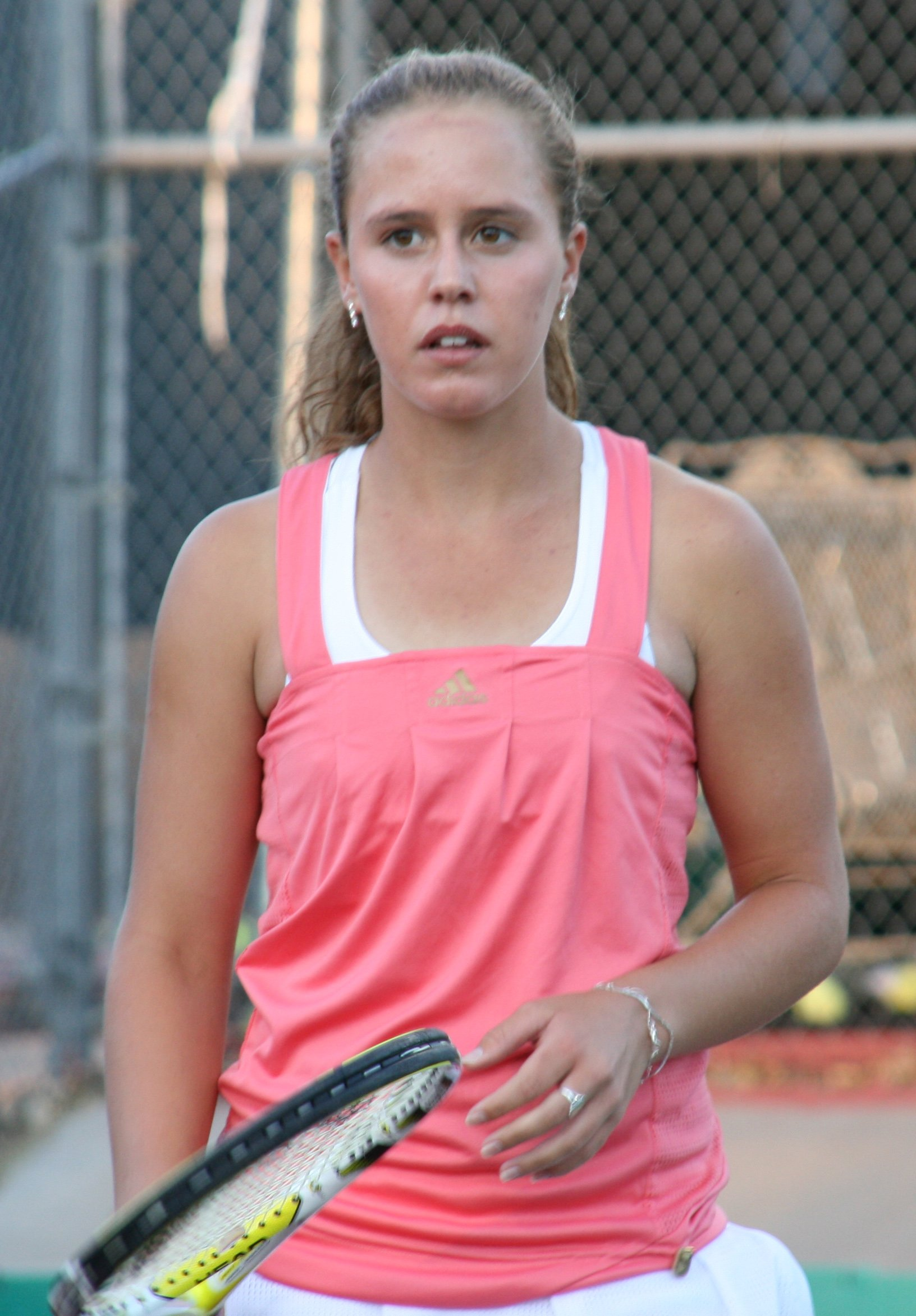 Michelle Larcher de Brito at the 2007 Coleman Vision Tennis Championships in Albuquerque